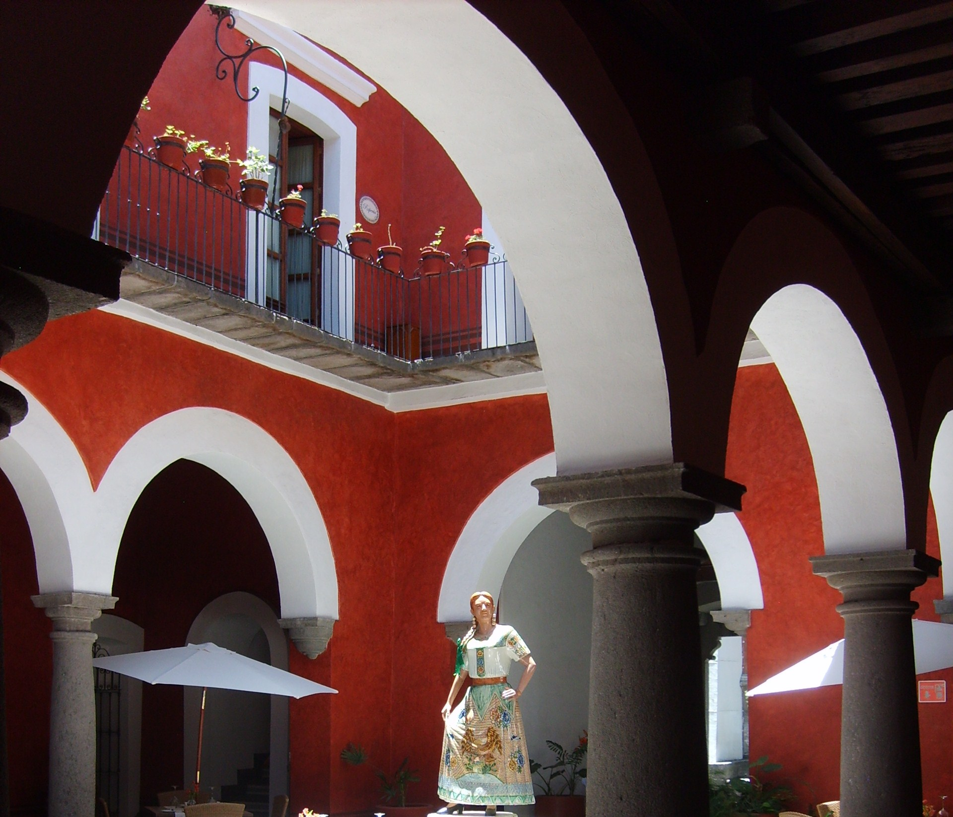 China Poblana´s house, Catarina de San Juan´s death place.